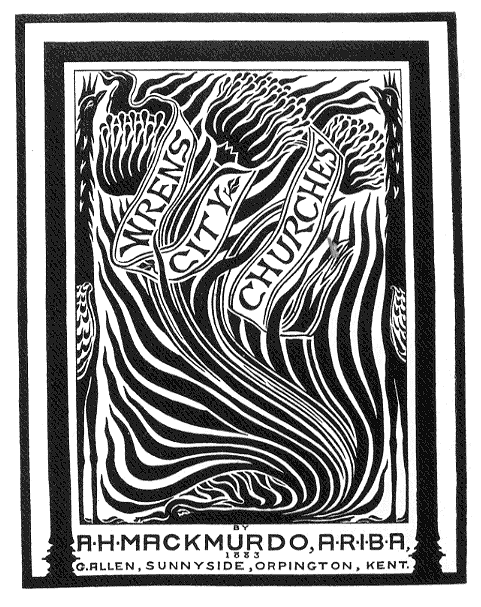 Front cover of Wren's City Churches by Mackmurdo, a print from The Hobby Horse (England), published by G. Allen with woodcut, letterpress, mezzotint on steel.